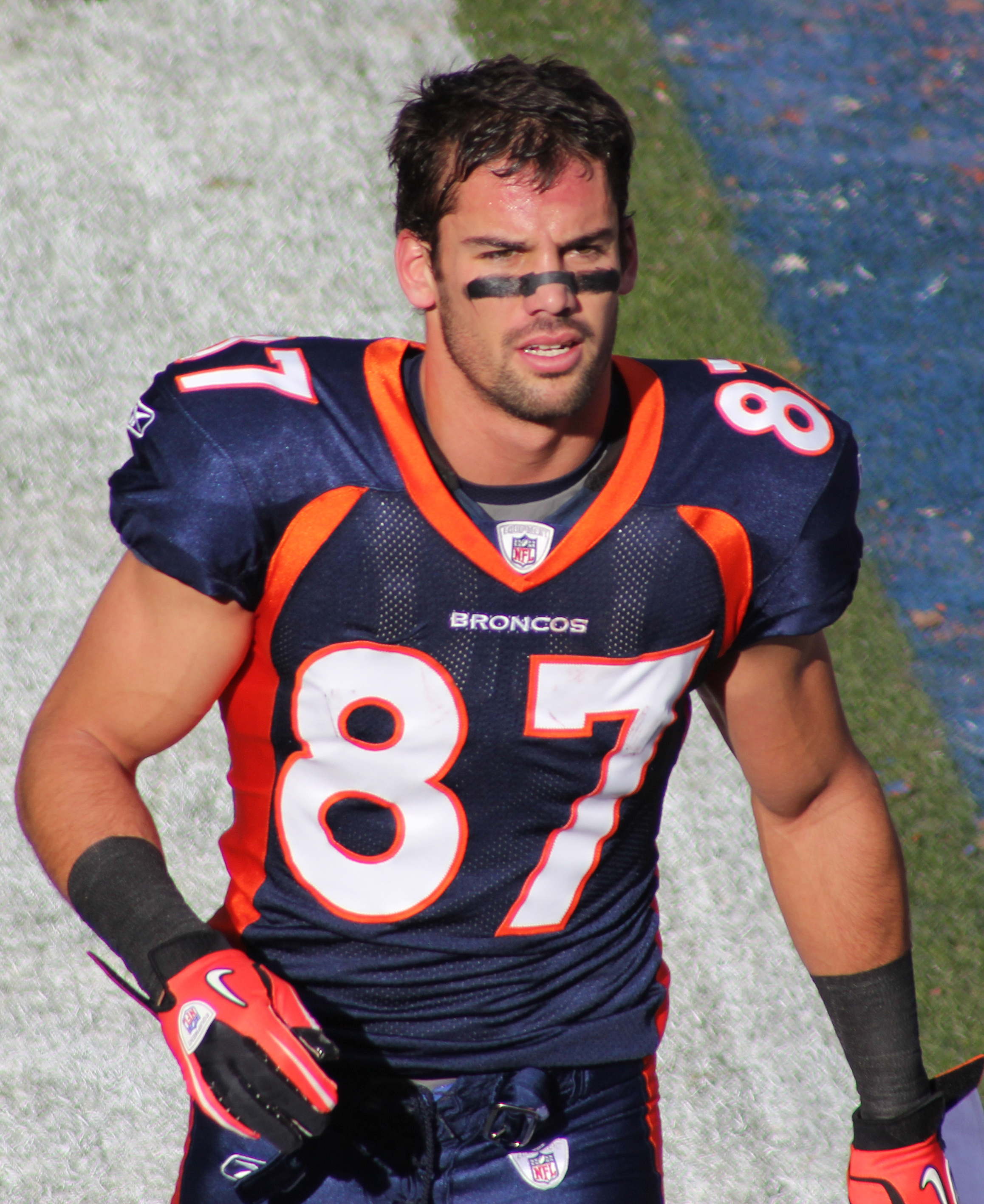 Eric Decker, a player on the Denver Broncos American football team.